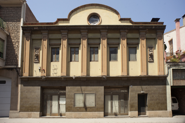 ref: PM_104091_E_Ponts; Cinema Fantasio 2; Carretera de Lleida a Puigcerda; Ponts; Catalunya, Lleida; ; photo: Paul M.R.Maeyaert; ; © Paul M.R. Maeyaert